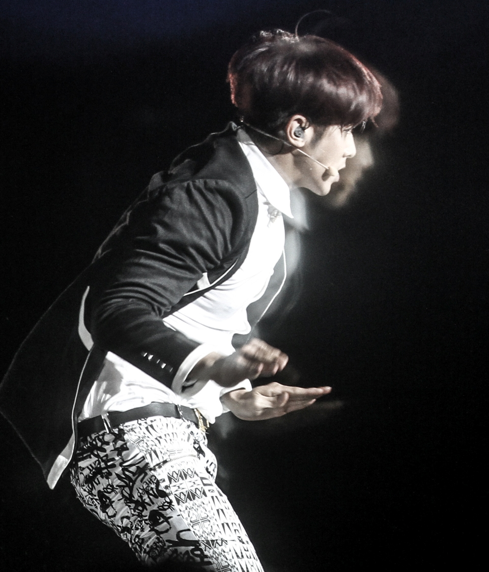 Yunho performs at SMTown Live In Singapore